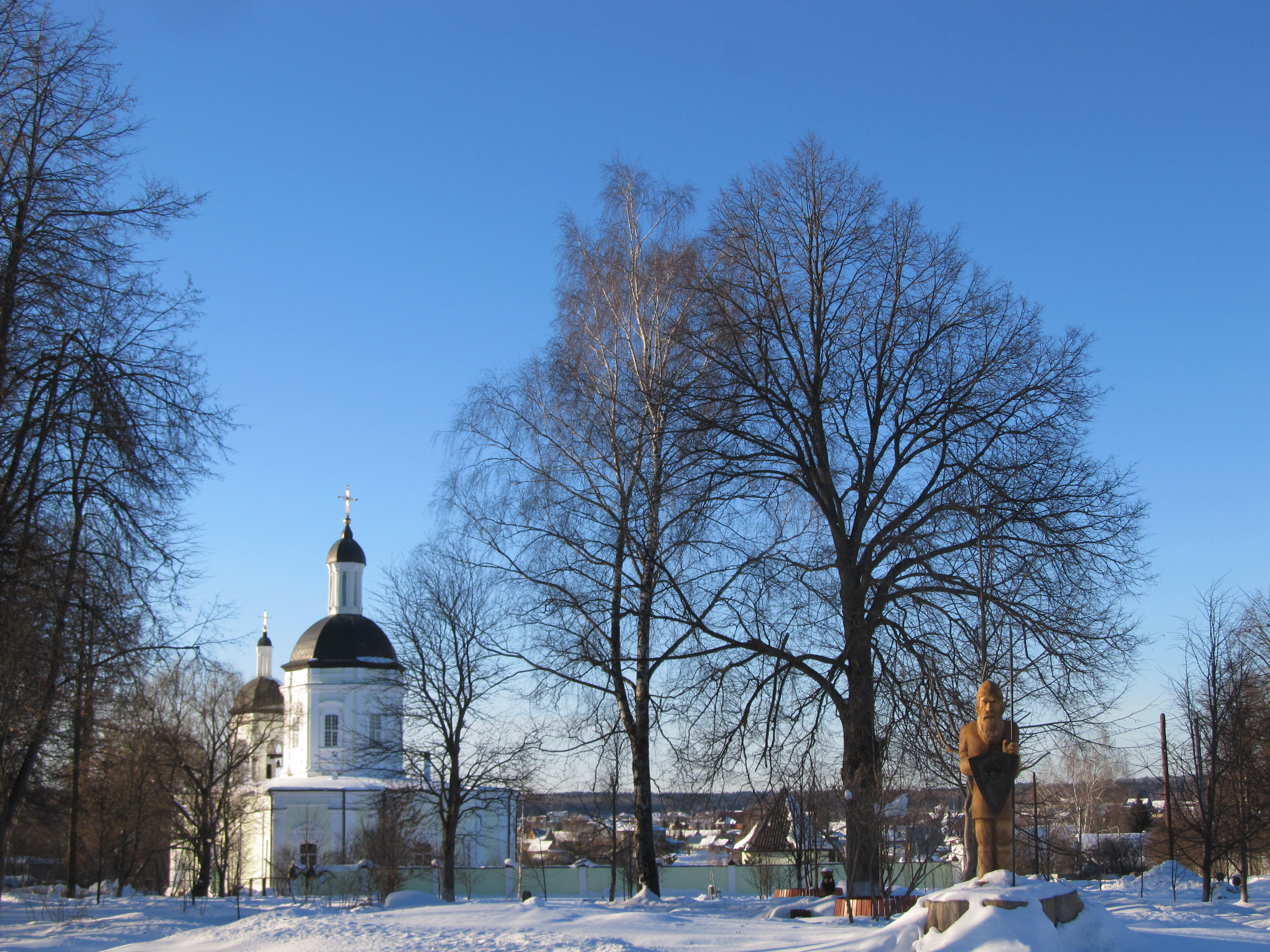 Yel'digino (village), Holy Trinity Church. Pushkinsky District Moscow Oblast